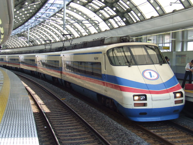 A Keisei AE100 series EMU at Keisei Funabashi Station